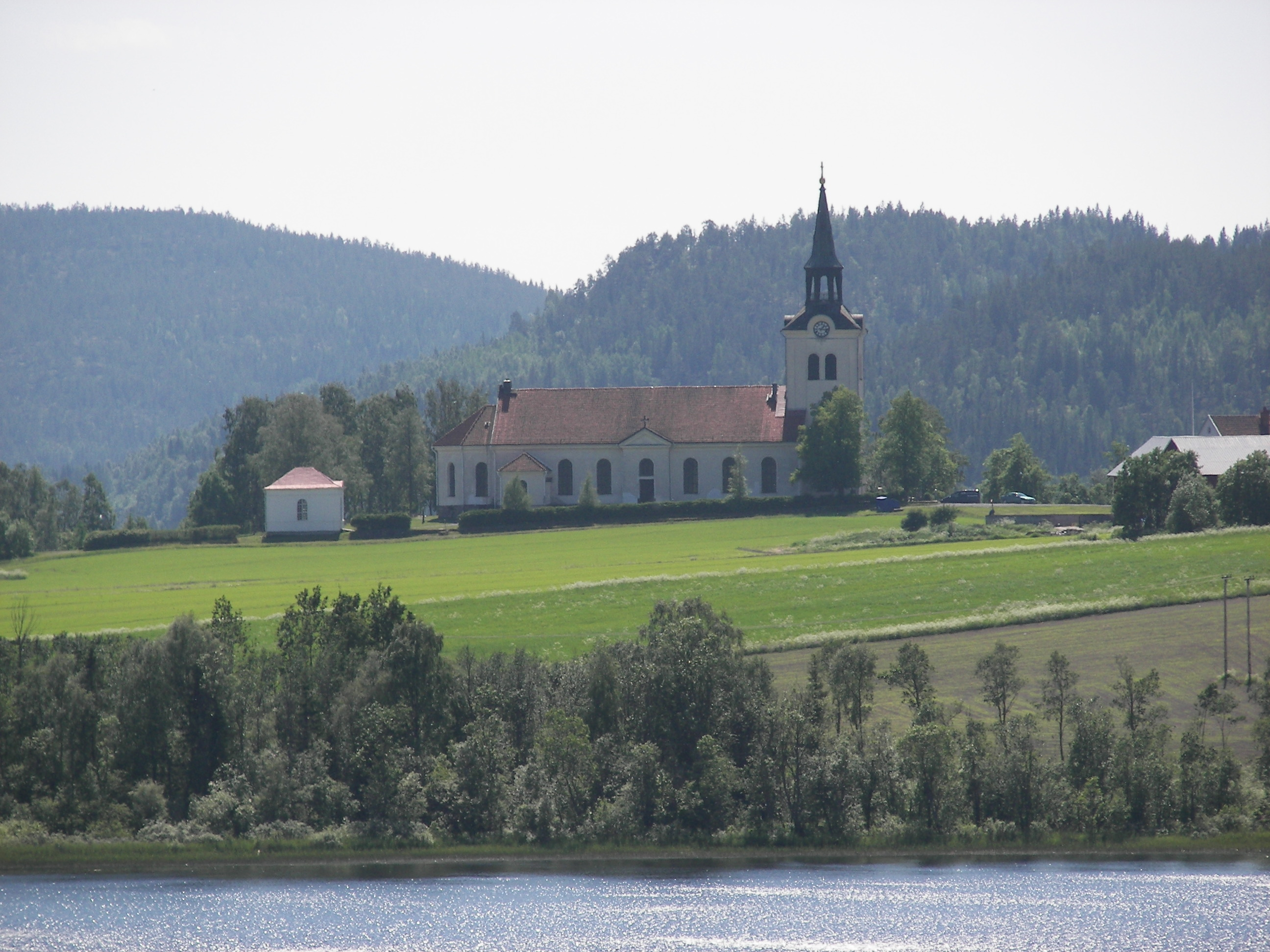 Vibyggerå church in Docksta, Sweden.